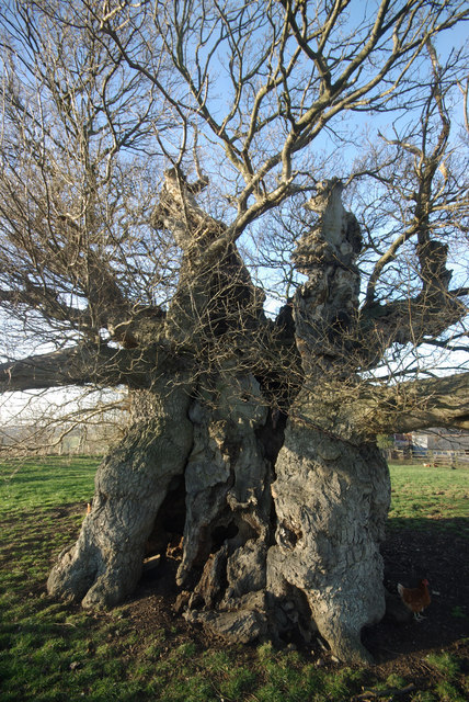 The Bowthorpe Oak. The famous ancient Bowthorpe Oak tree.